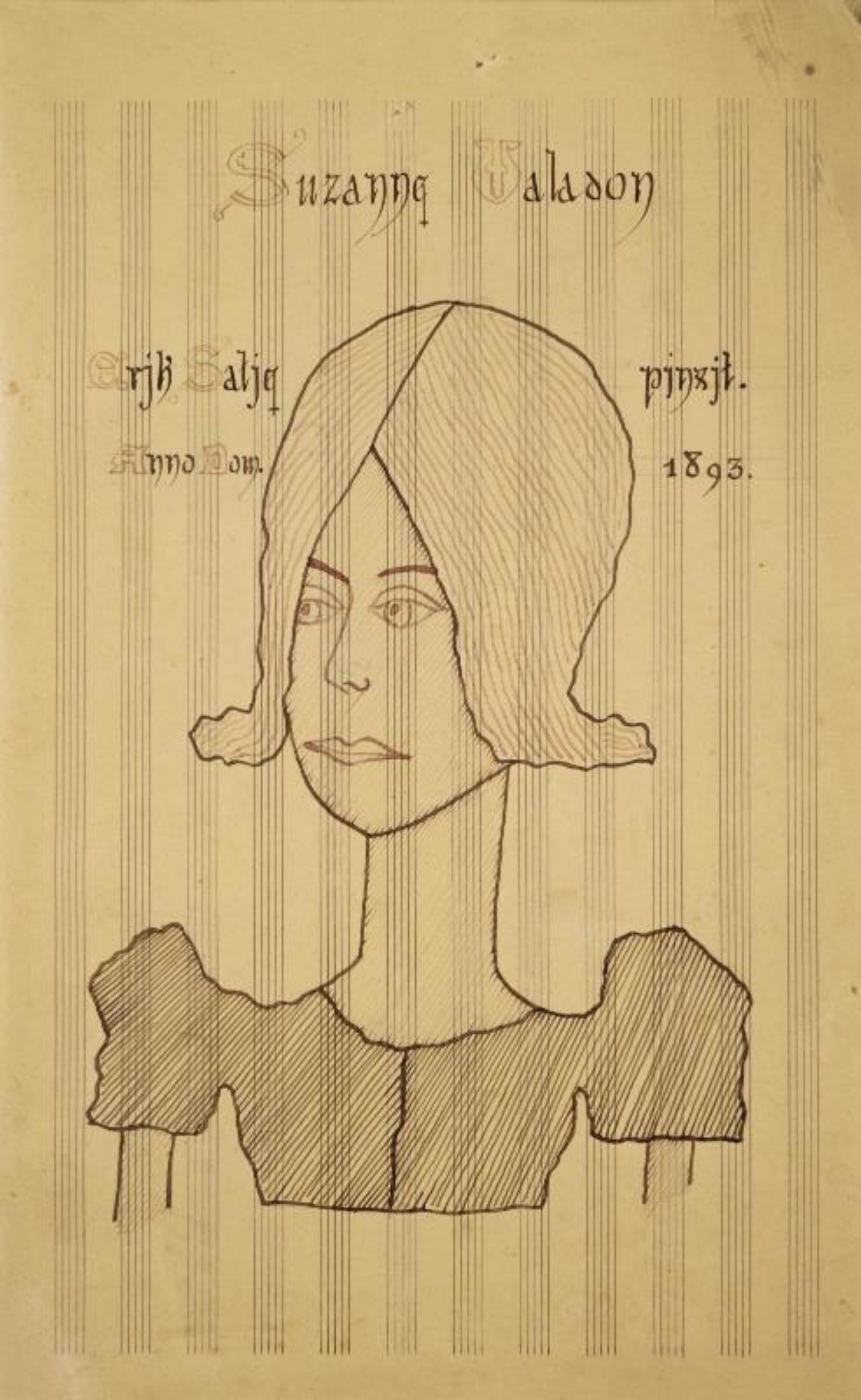 Erik Satie - Portrait of Suzanne Valadon